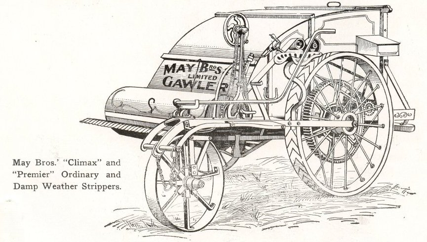 May Brothers Premier Harvester - Australasian Implement & Housing Furniture Co. Catalogue 1916-17